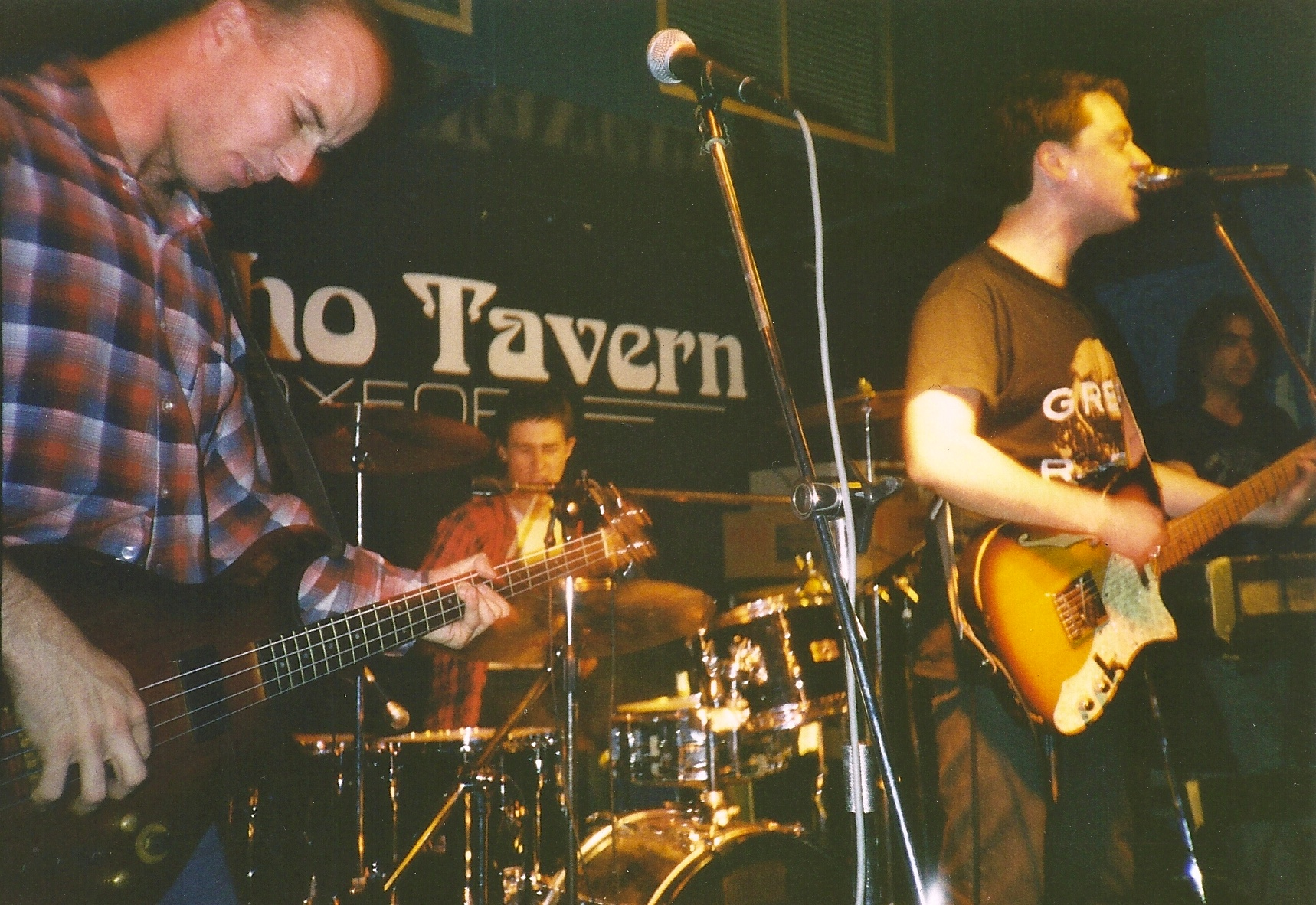 The Chills, Jericho Tavern, Oxford,1989 Oxford Gig photos 1989-90. Includes Ride, Carter, the Shamen, Mega City Four Neate photos facebook page. More neate photos.